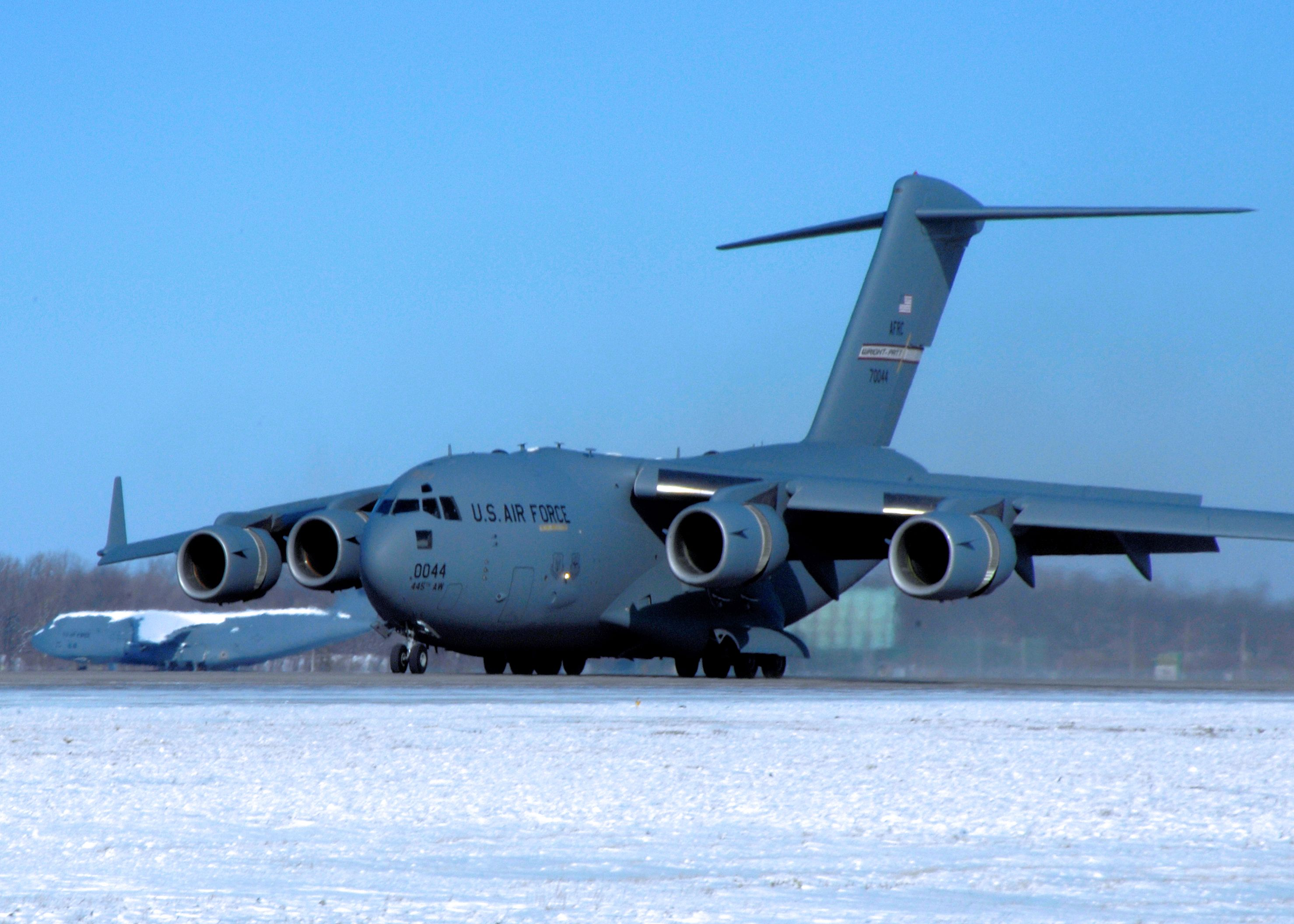 The 445th Airlift Wing at Wright-Patterson Air Force Base, Ohio received its first C-17 Globemaster III Jan. 21,2010. The aircraft is on loan from Joint Base Charleston, S.C. A maintenance field training team from Air Education and Training Command will begin training 445th maintenance personnel on this airplane. The 445th AW, an Air Force Reserve Command unit, is transitioning from flying and maintaining the C-5 Galaxy to the newer C-17. (U.S. Air Force photo/Michelle Gigante)